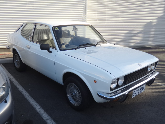 This belongs to the Service Manager where I work, just one of the many rare cars he owns.